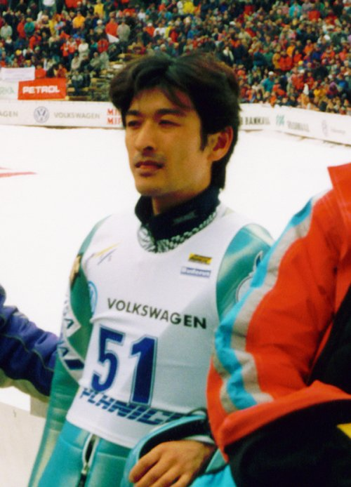 Hiroya Saito (斉藤浩哉) during the Ski-Flying World-Cup (Planica)